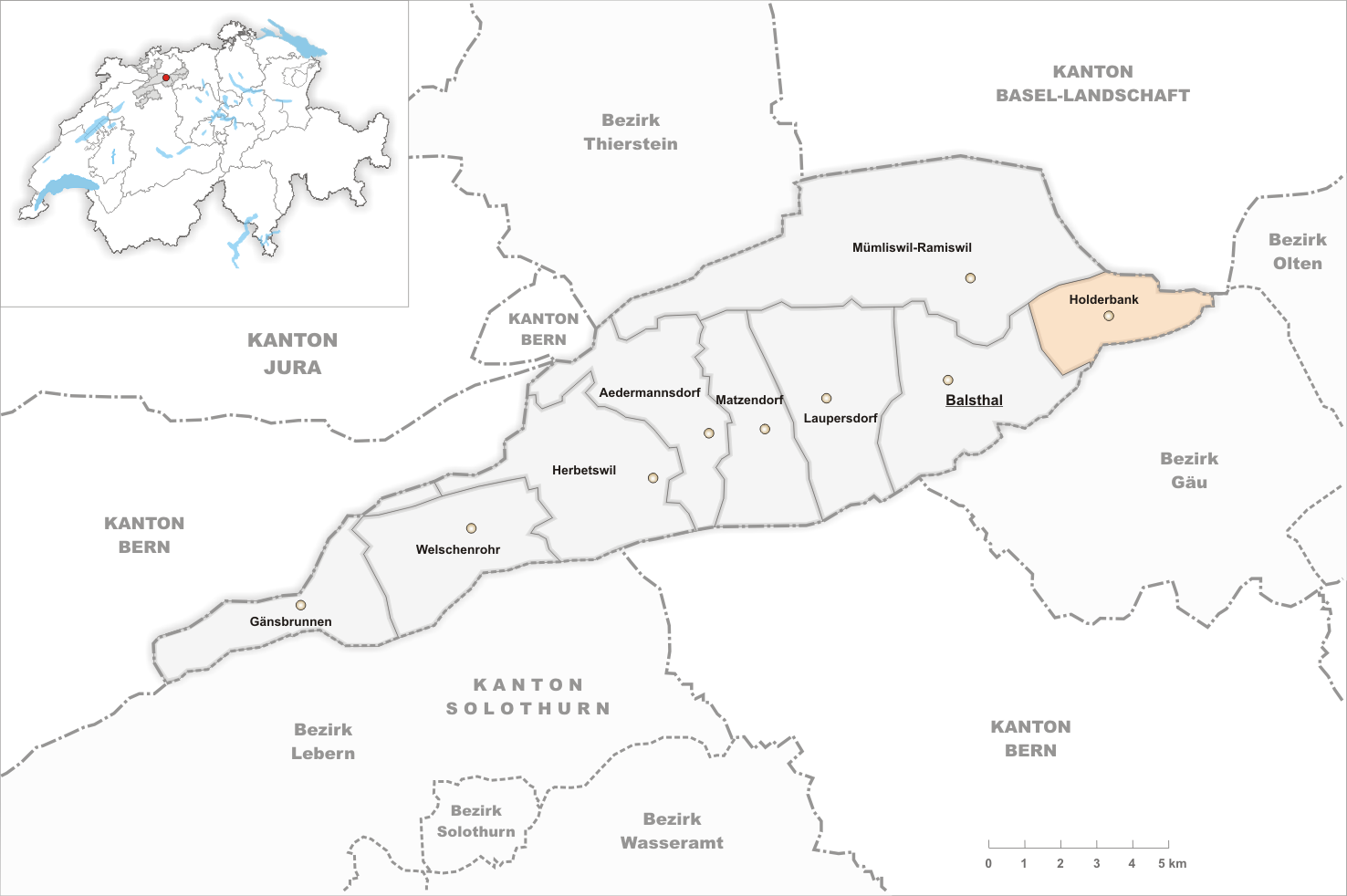 Municipality Holderbank